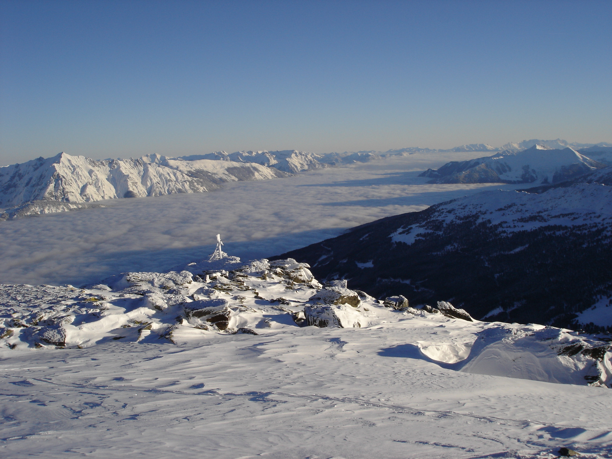 The Innvalley from the Glungezer summit to East